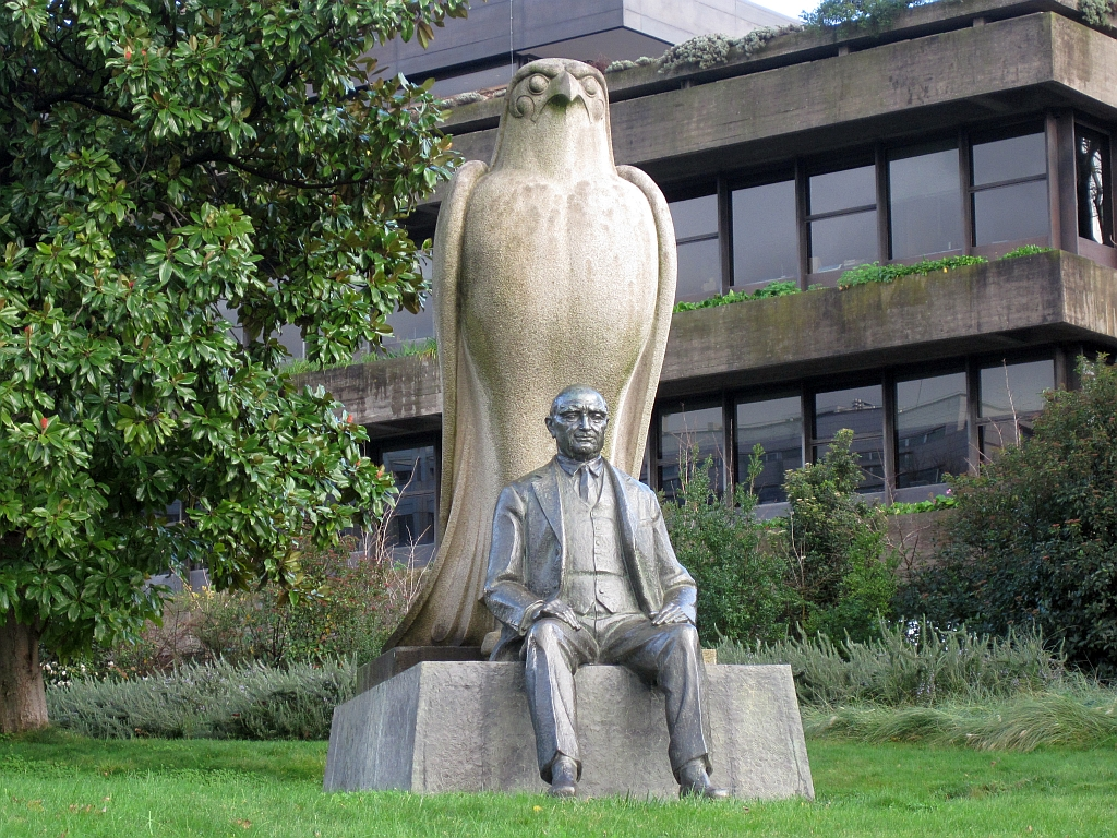 The elderly gentleman liked to come to this park across from the Spanish Embassy and feed the pigeons. He was very dedicated, and the birds grew to gigantic proportions. When he died, local people interested in avian welfare had this monument built in his memory.